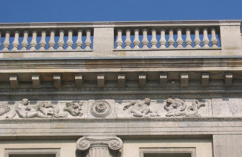 Frieze, Swiss Embassy Berlin. The building is situated in the new German government-district in Berlin-Tiergarten nearby the Bundeskanzleramt (German Chancellery) and the new Berlin Hauptbahnhof (German for Berlin main station). It was built in 1870/71 by the German architect Friedrich Hitzig for a private person.